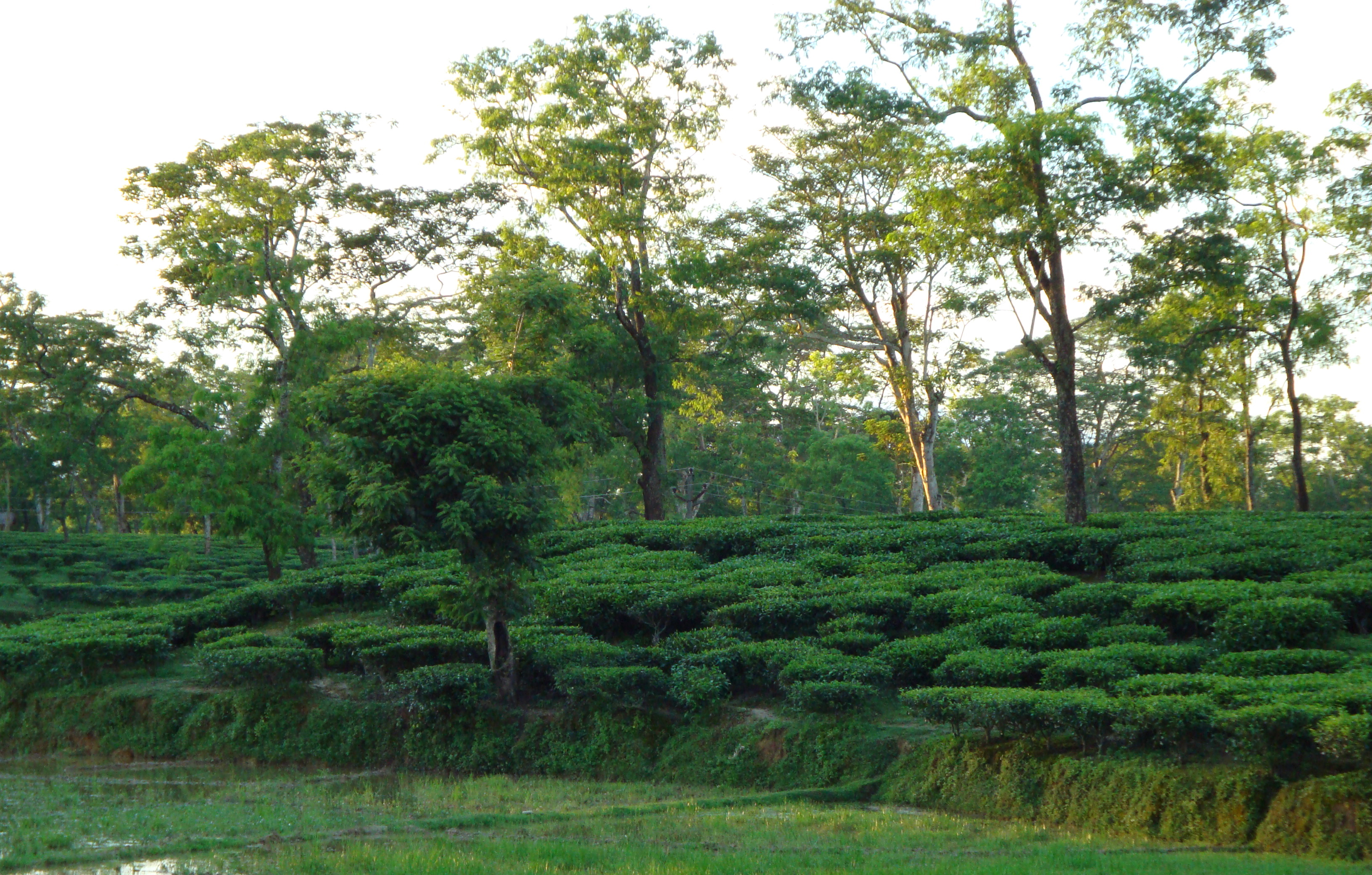 The Badulipara tea garden of Golaghat, Assam